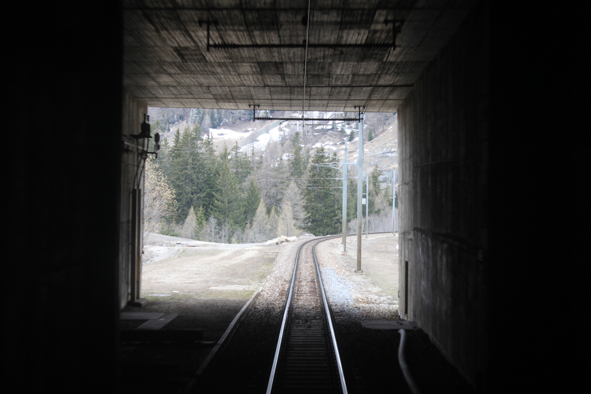 Oberwald portal of the Furka Base Tunnel.